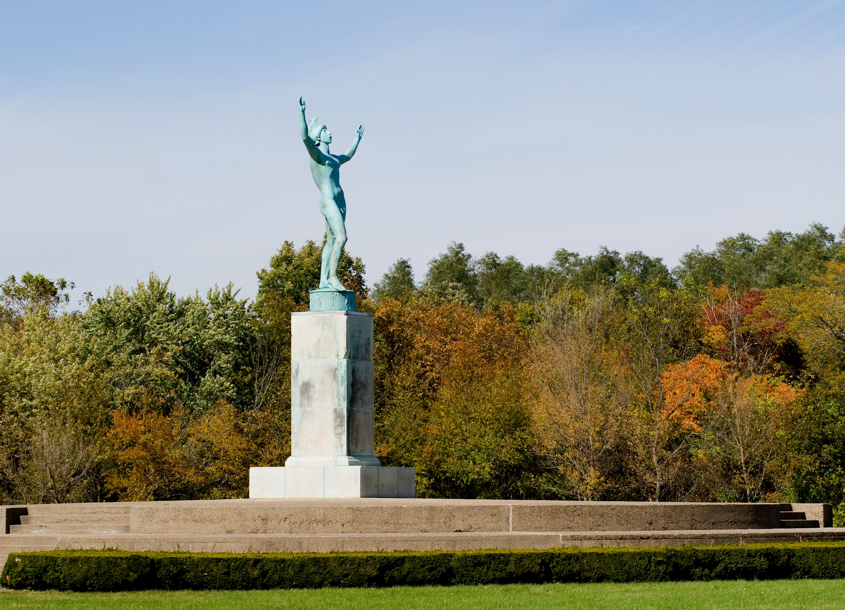 The Sun Singer—Solsångaren — a bronze sculpture by Carl Milles. Located in Robert Allerton Park, near Monticello, Illinois. Photograph taken with a Canon EOS 20D.